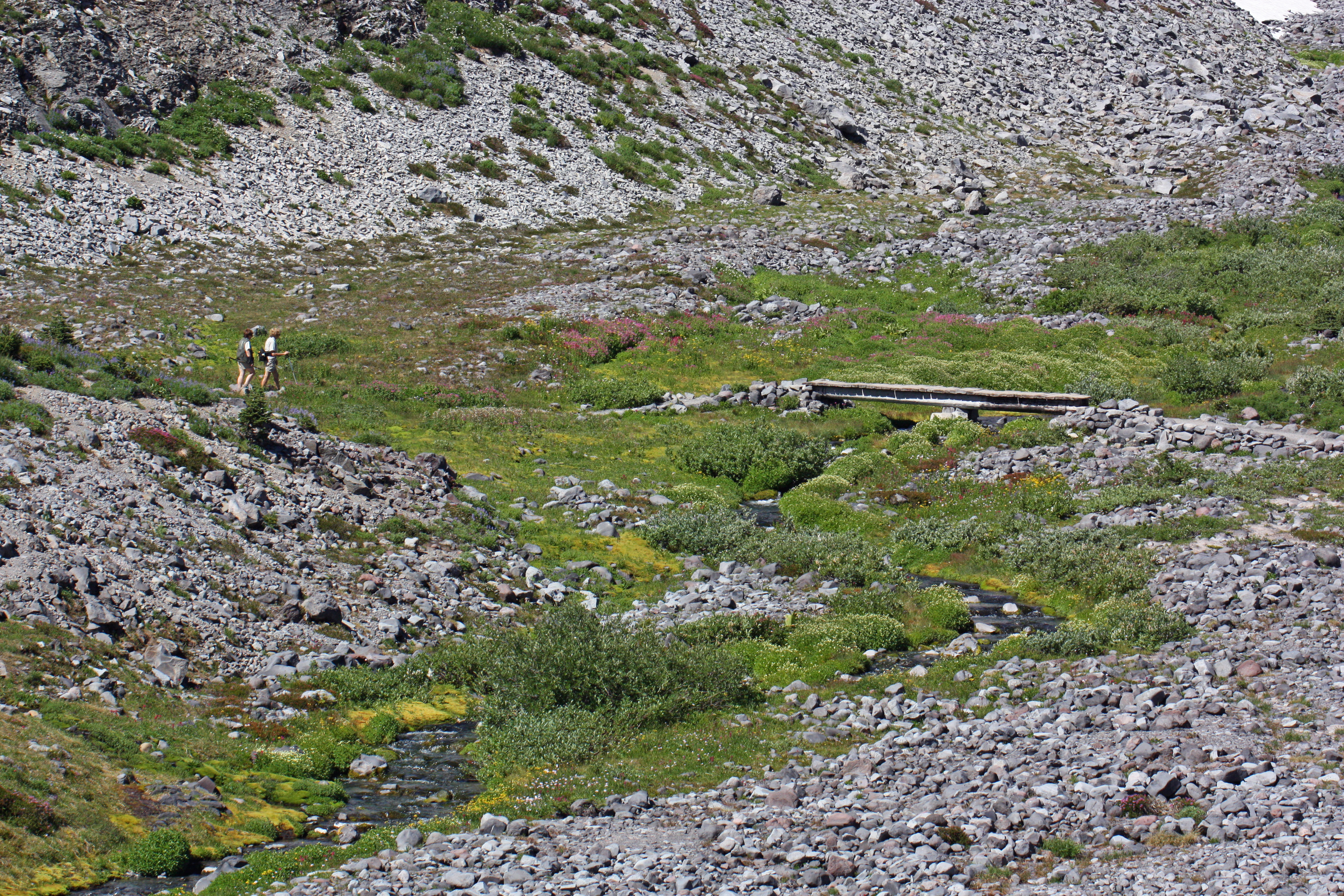 Paradise River near source; hikers near bridge on Skyline Trail; meadows in subalpine zone